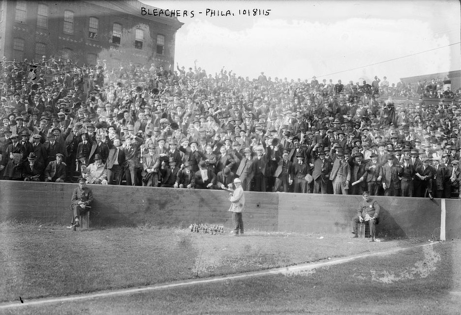 The bleachers of the Baker Bowl in Philadelphia, during the 1915 World Series.